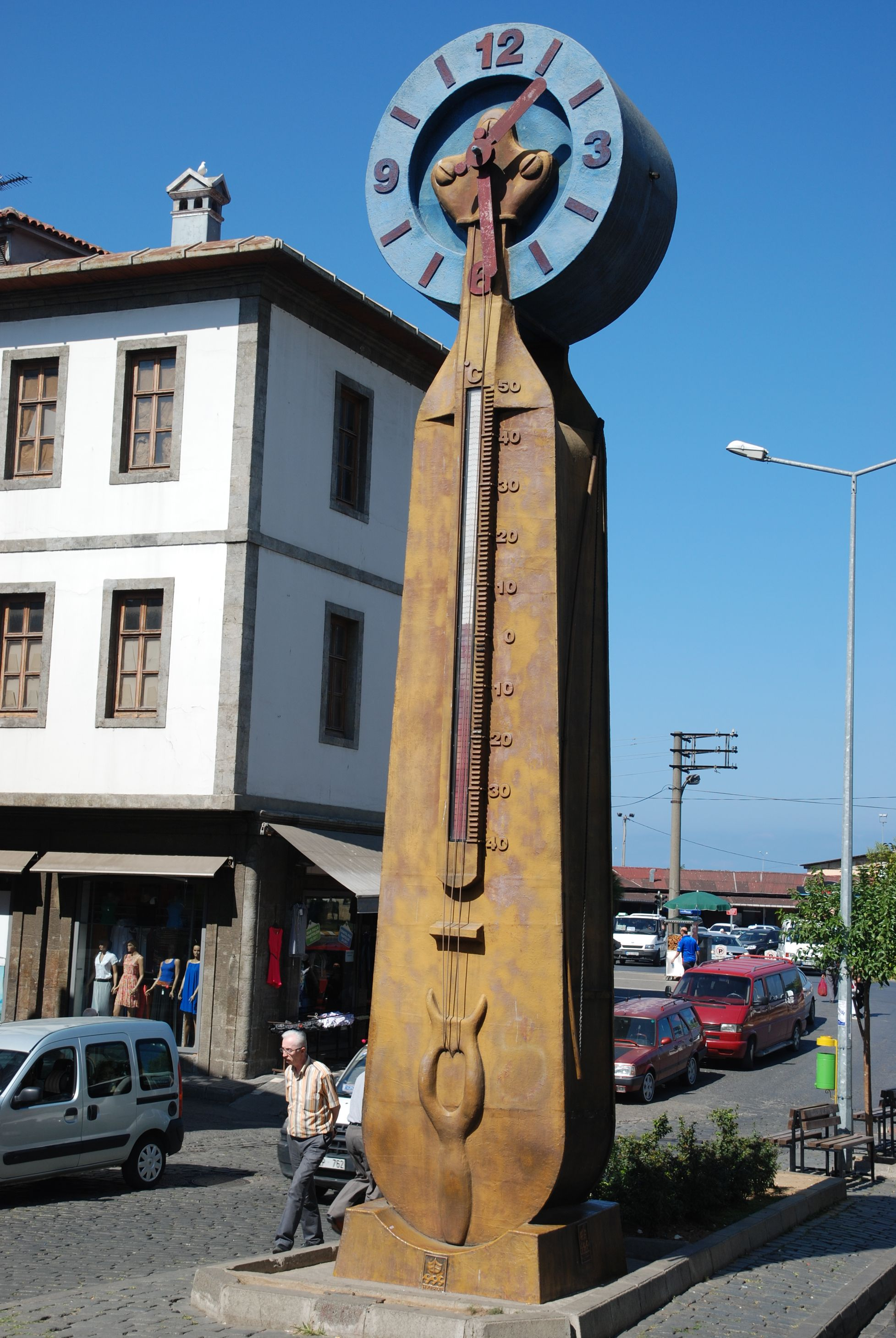 Karadeniz Kemençesi, Kemenche of the Black Sea, statue in Trabzon